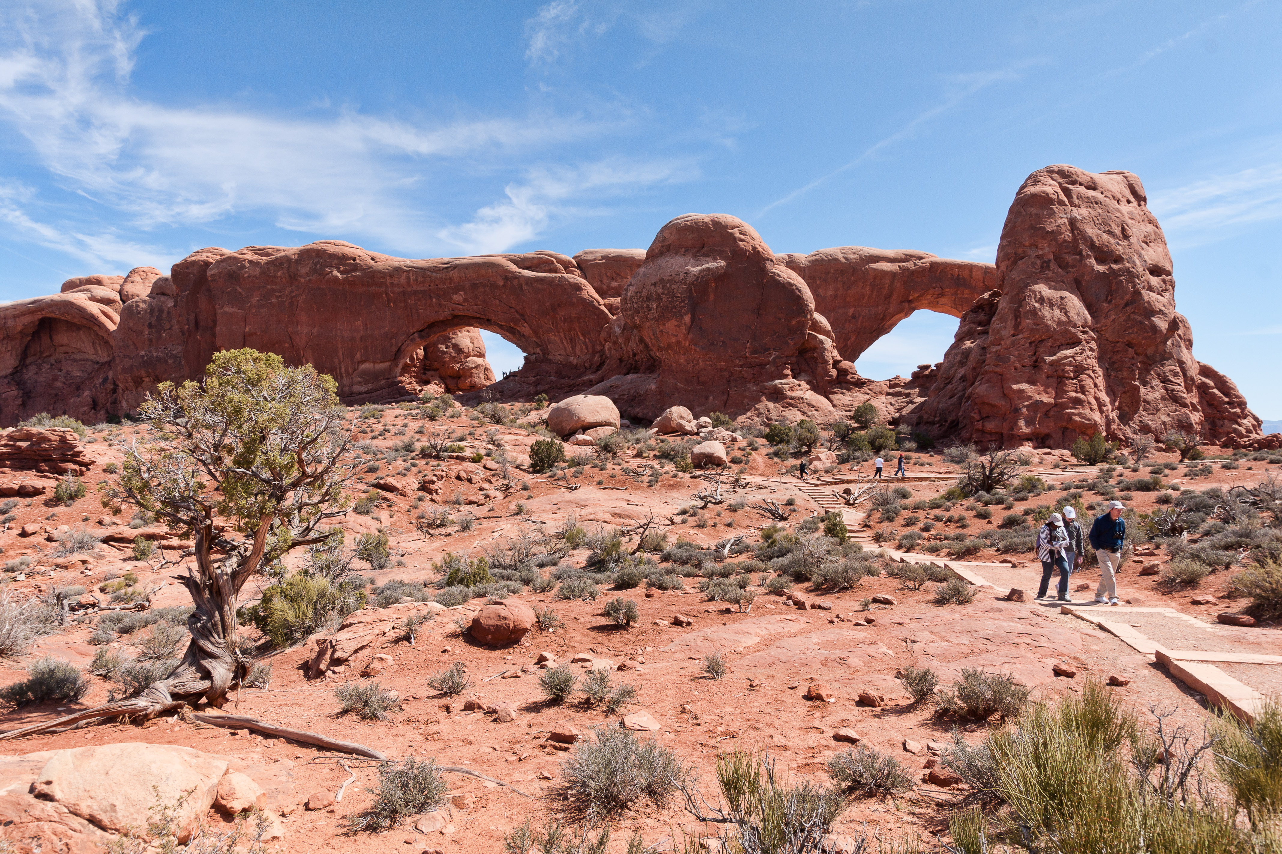 Arches National Park - North and South arches